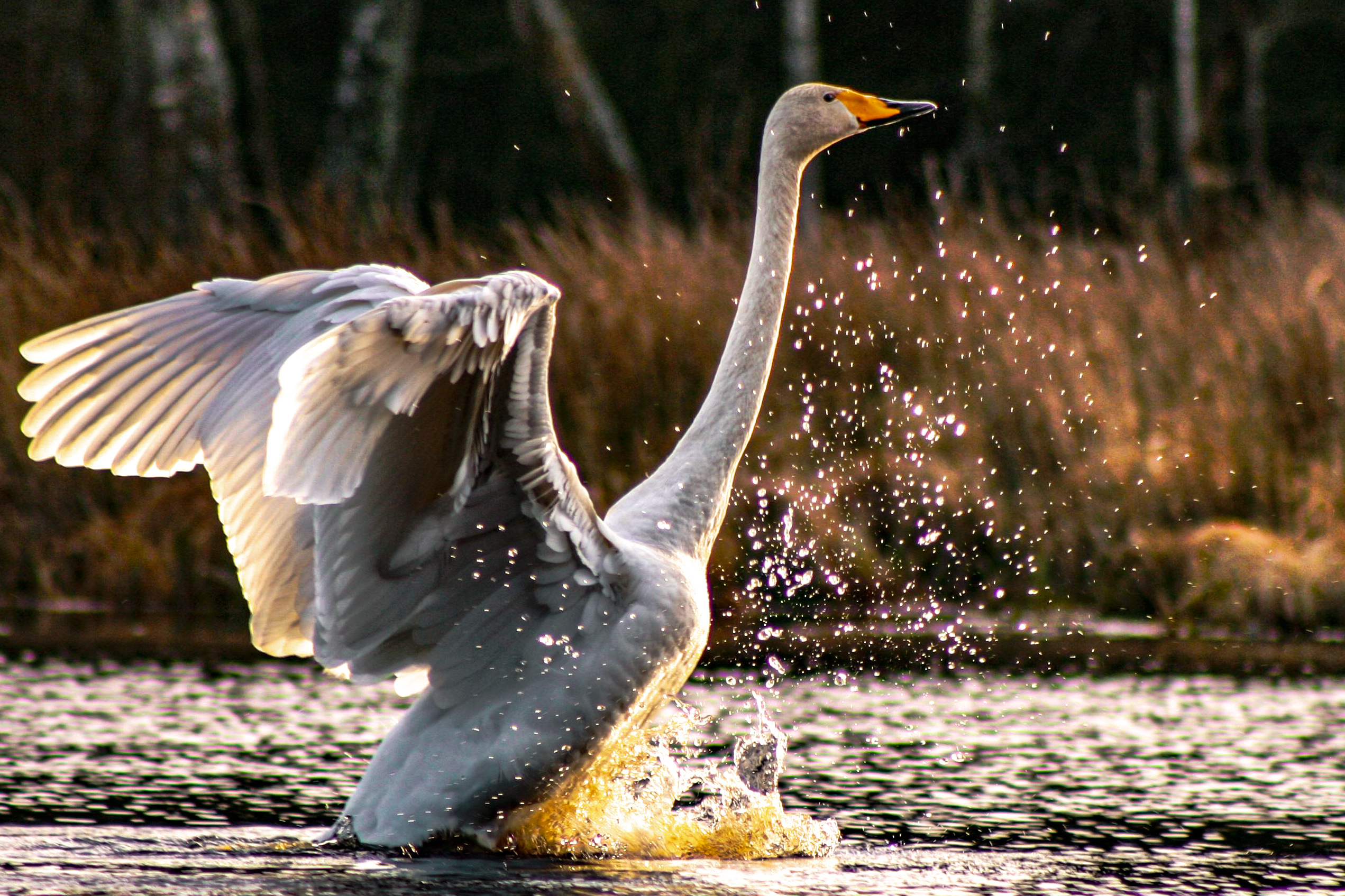 A common swan descending into the water, a late evening in Kristianstad vattenrike, a biosphere reserve in Skåne.